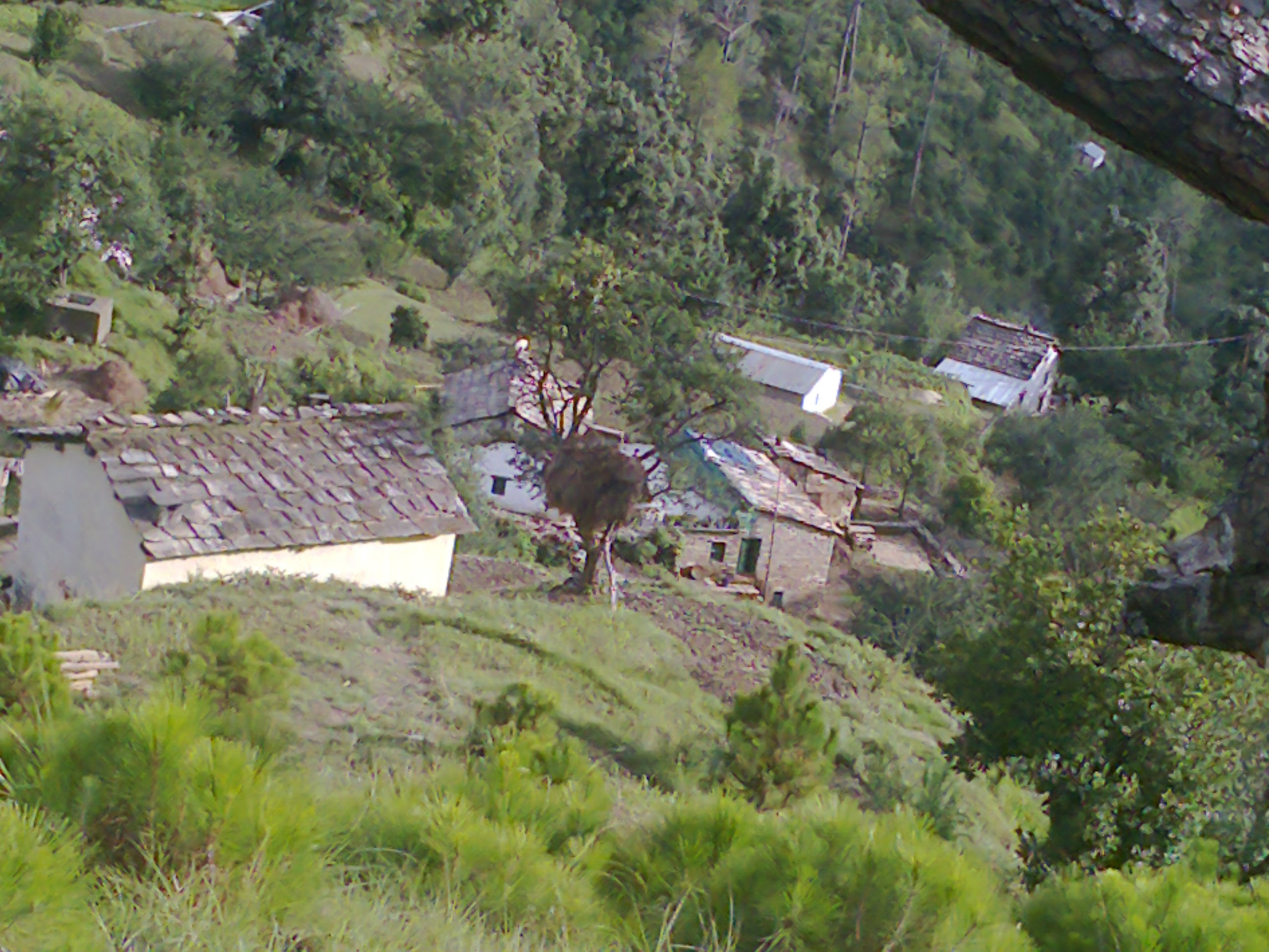 A view of a village in Almora district of Uttarakhand, India. Photo taken in June 2013.